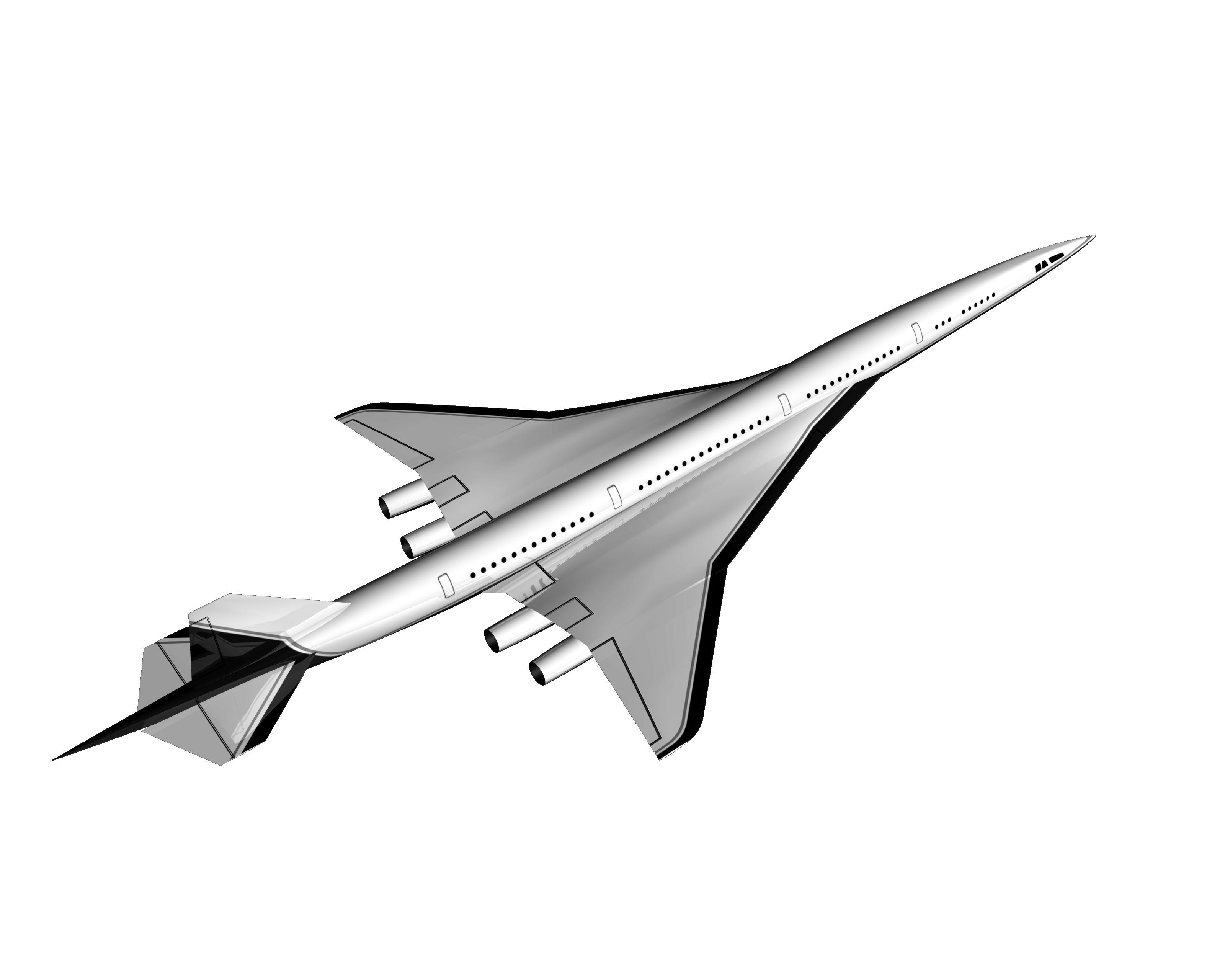 High Speed Civil Transport concept art